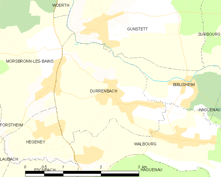 Map of French municipality